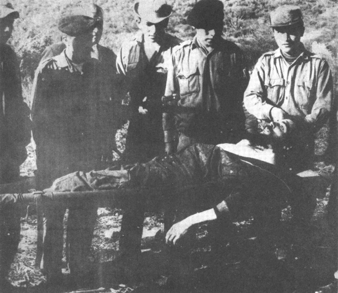 Che Guevara's corpse before being tied to the landing skids of a helicopter and being flown from La Higuera to neighboring Vallegrande, Bolivia. Image taken by covert CIA operative.